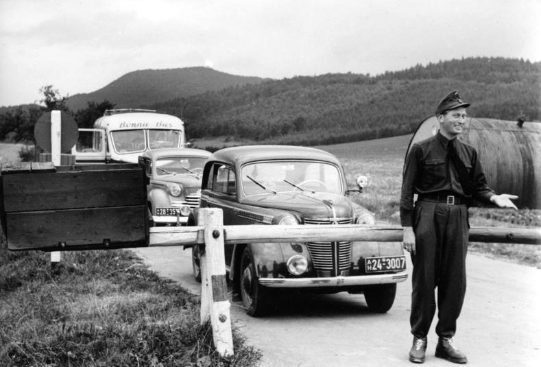 Inner German border near Heldra, officer of the Federal Border Guard with waiting passenger car and autobus